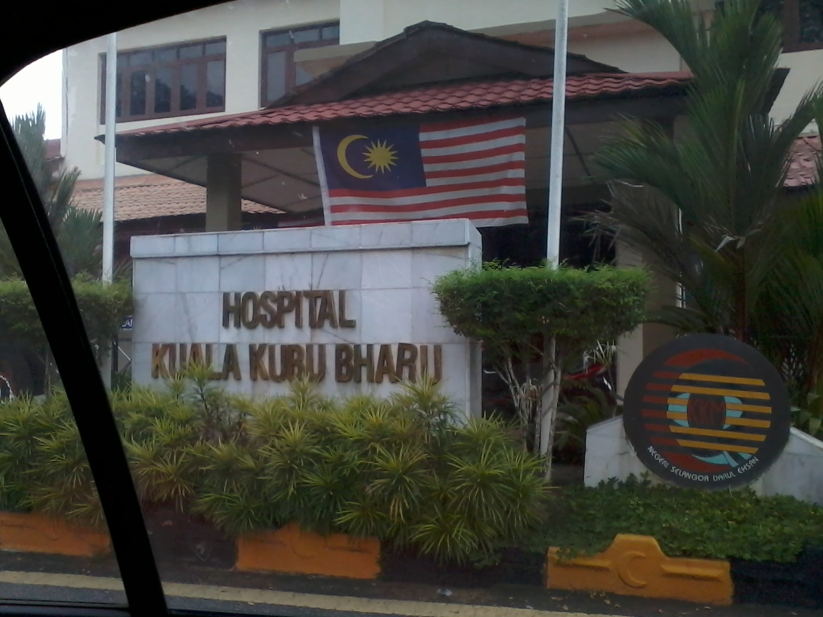 Kuala Kubu Bharu General Hospital. Bulid during British colonization, This hospital was infamous as landmark for several malay films such as Mistik (2003)